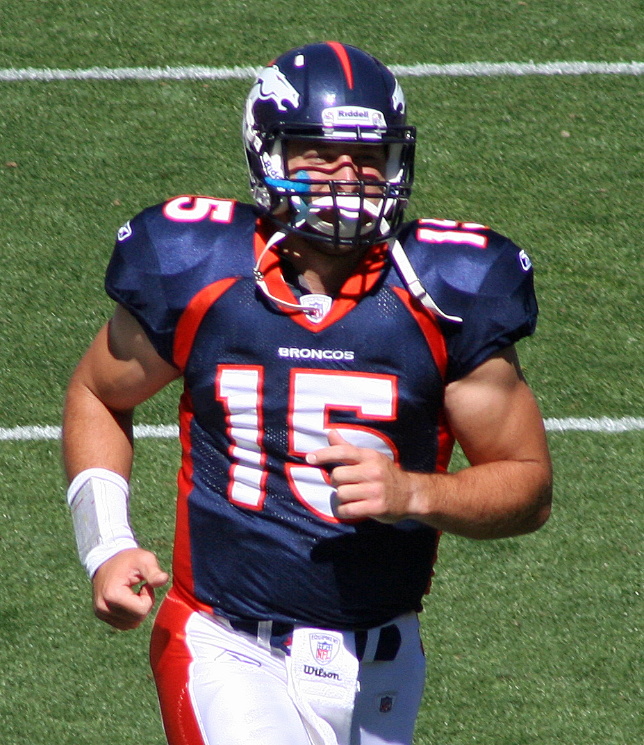 Tim Tebow, a player on the Denver Broncos American football team.